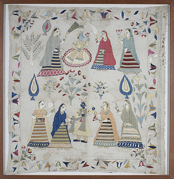 India, Himachal Pradesh, probably Kangra Chamba Rumal with Scenes of Gopis Adoring Krishna, late 18th to early 19th century Needlework; Ceremonial/Ritual Furnishing, Silk embroidery on cotton, 30 1/2 x 28 1/2 in. (77.47 x 72.39 cm) From the Nasli and Alice Heeramaneck Collection, Museum Associates Purchase (M.71.1.40),Los Angeles County Museum of Art